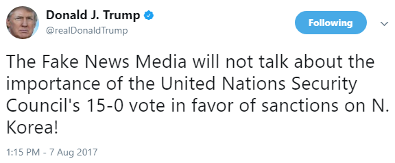 Donald Trump on Twitter at 1:15 pm PDT on August 7, 2017: "The Fake News Media will not talk about the importance of the United Nations Security Council's 15-0 vote in favor of sanctions on N. Korea!"